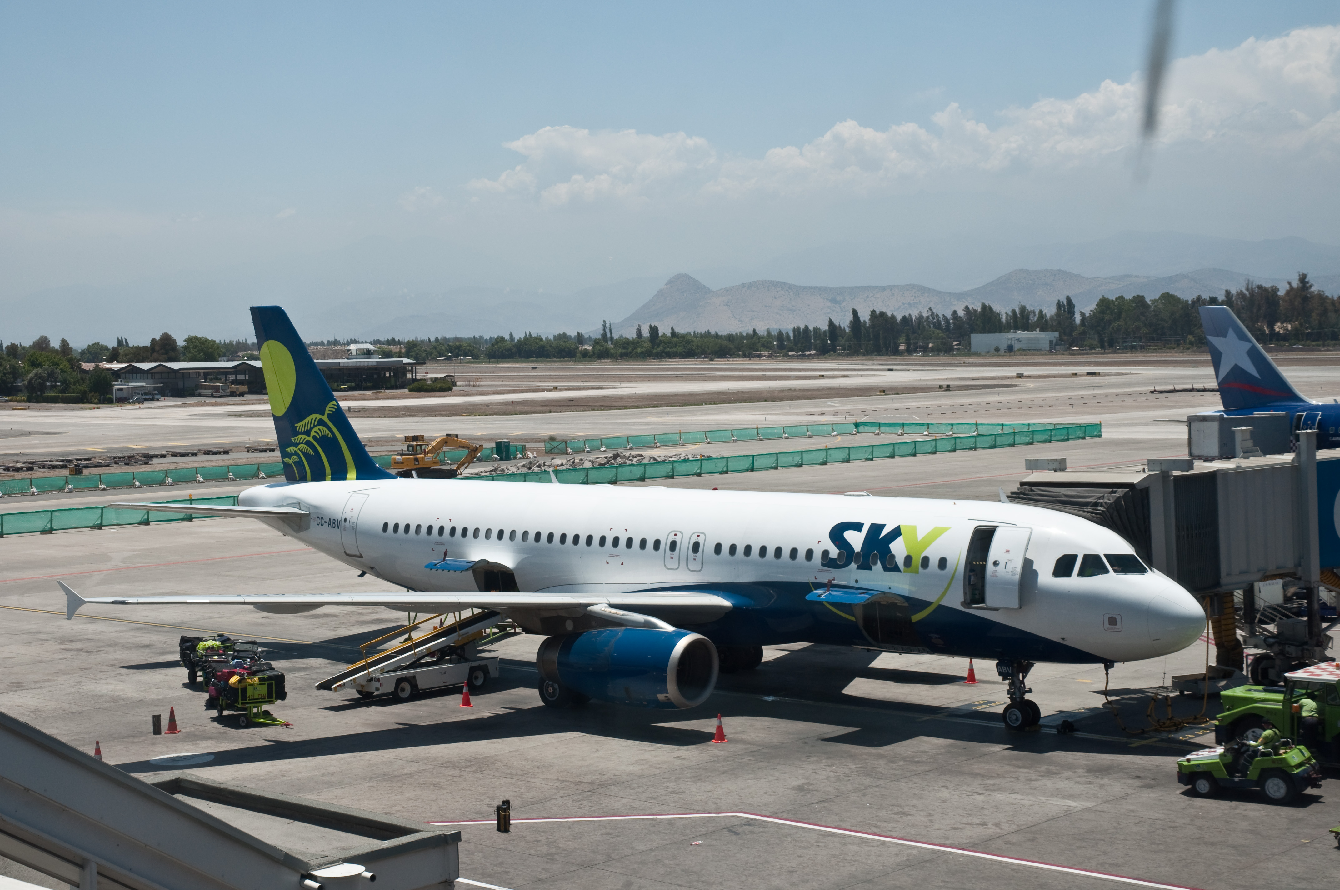 Sky Airlines, A320, Santiago, 27th. Dec. 2010